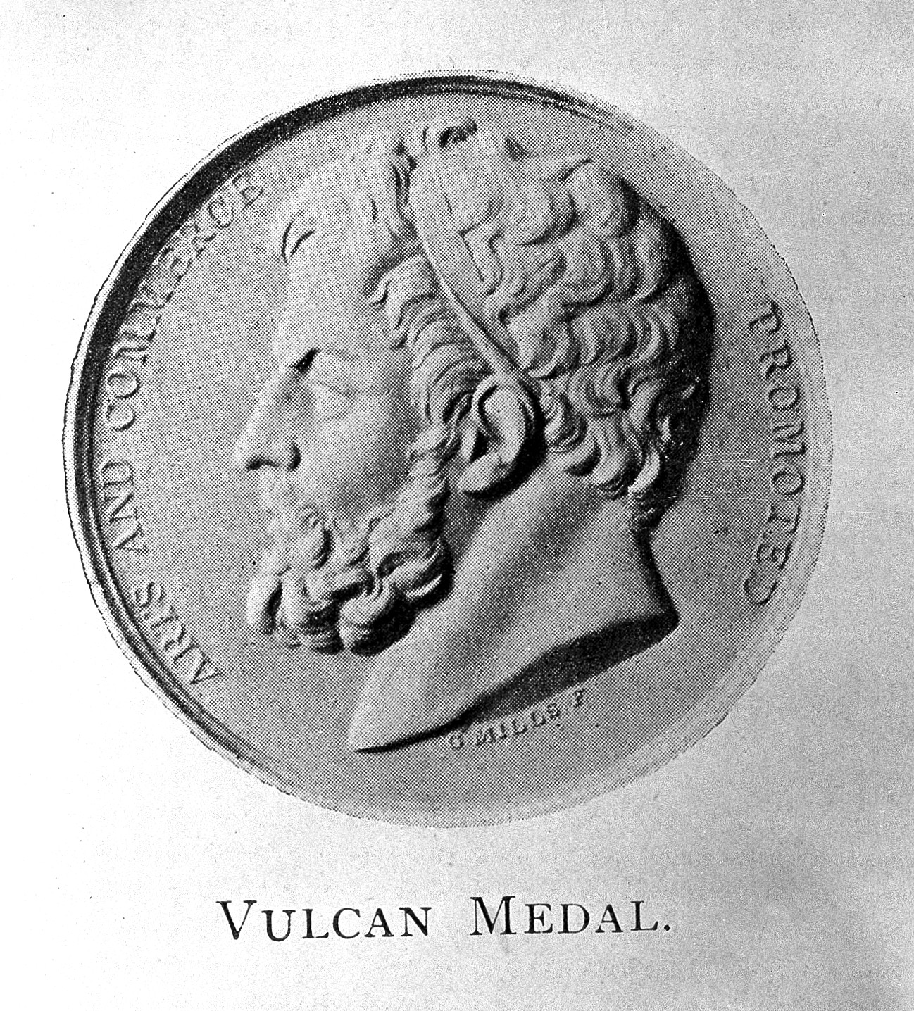 Vulcan Medal General Collections Keywords: Medals; Numismatics